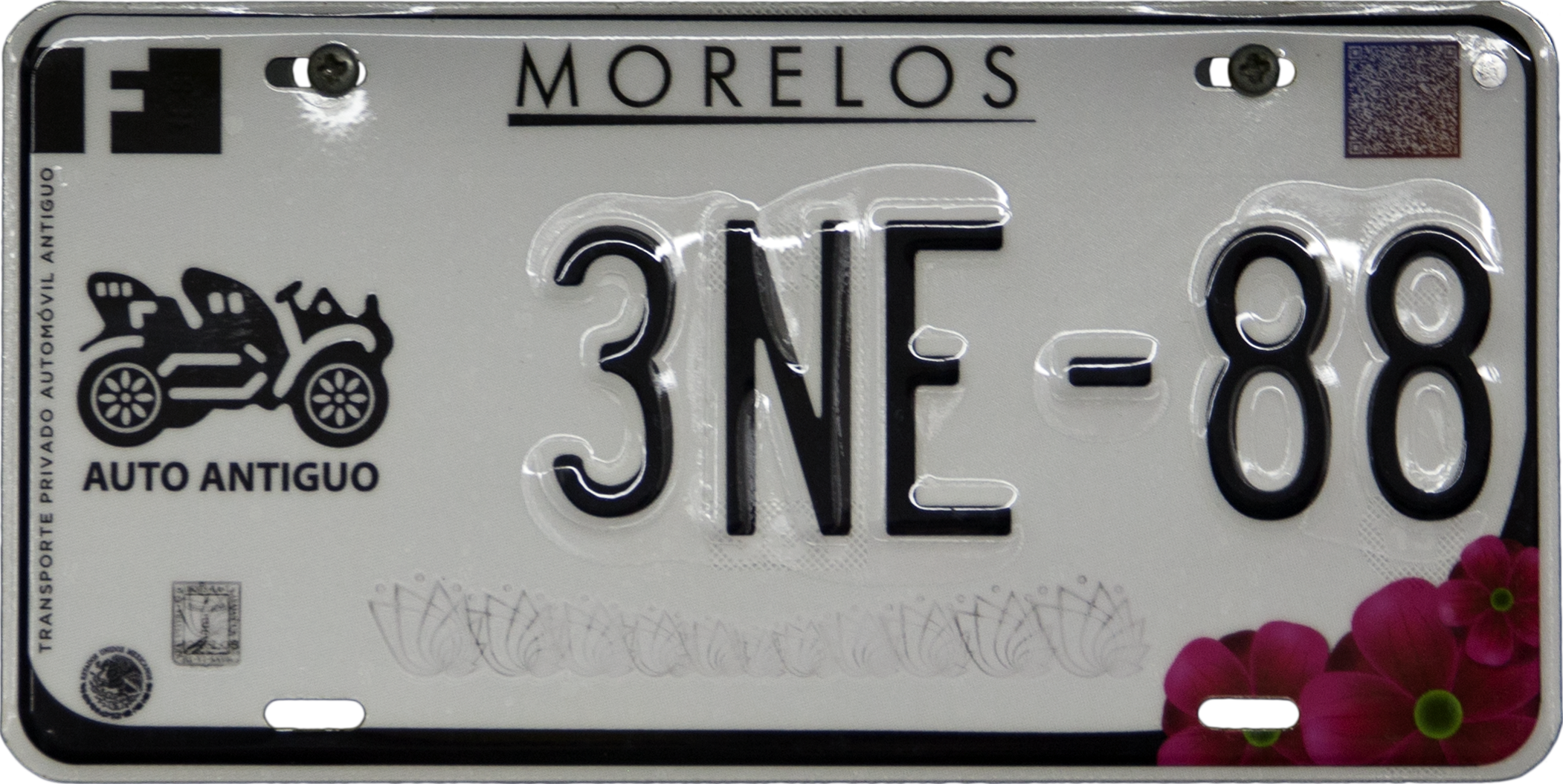 A Morelos "Auto Antiguo" license plate on an Aston Martin Lagonda in Long Island, New York.